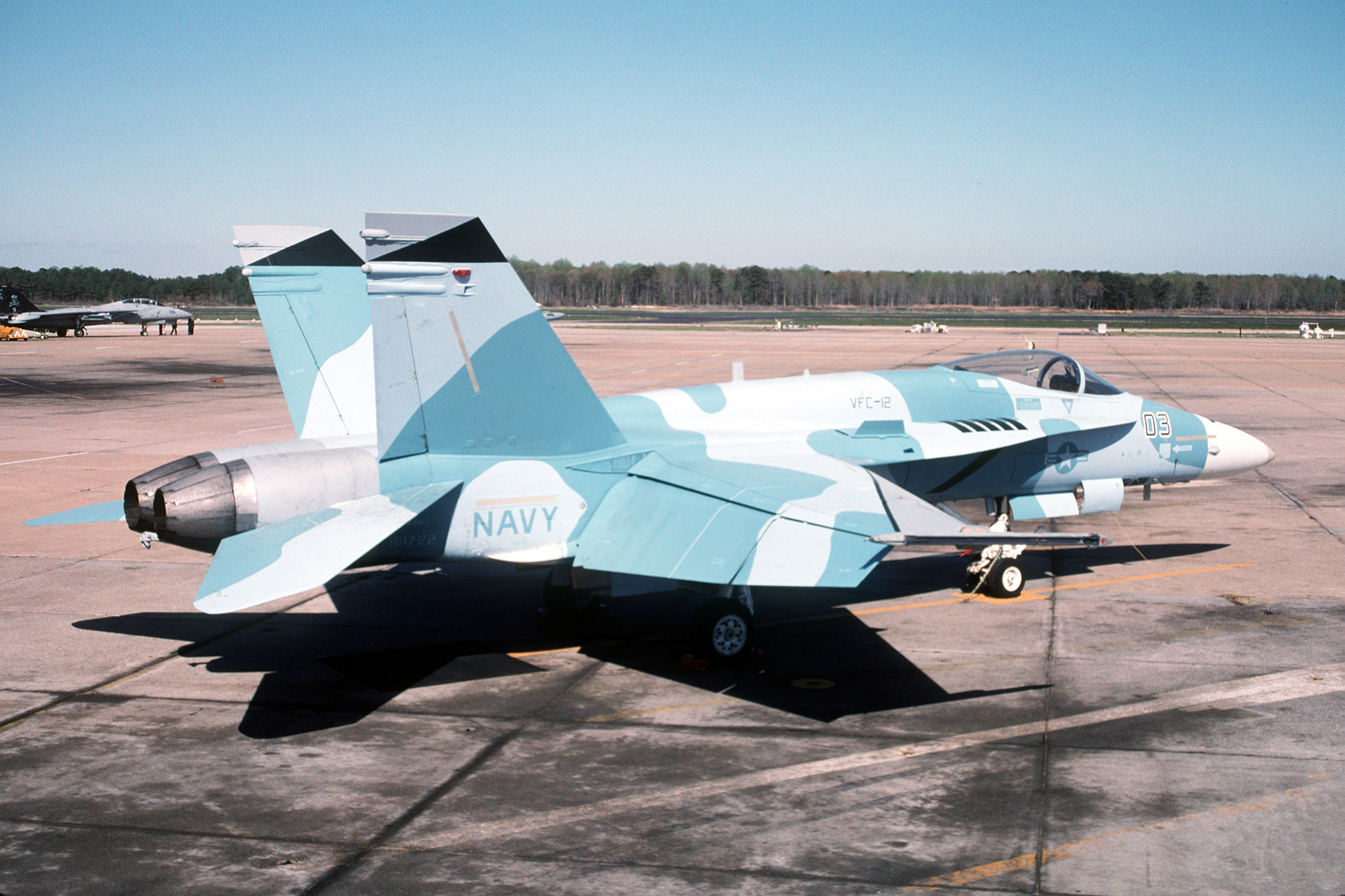 A right rear view of an F/A-18A Hornet aircraft of Reserve Composite Fighter Squadron 12 (VFC-12) parked on the squadron flight line at NAS Oceana. The aircraft is in the unique color scheme of a Russian Su-27 Flanker adversary aircraft.